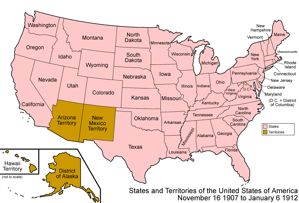 Map of the states and territories of the United States as it was from 1907 to January 1912. On November 16 1907, Oklahoma Territory and Indian territory were admitted as the state of Oklahoma. On January 6 1912, New Mexico Territory was admitted as the state of New Mexico.